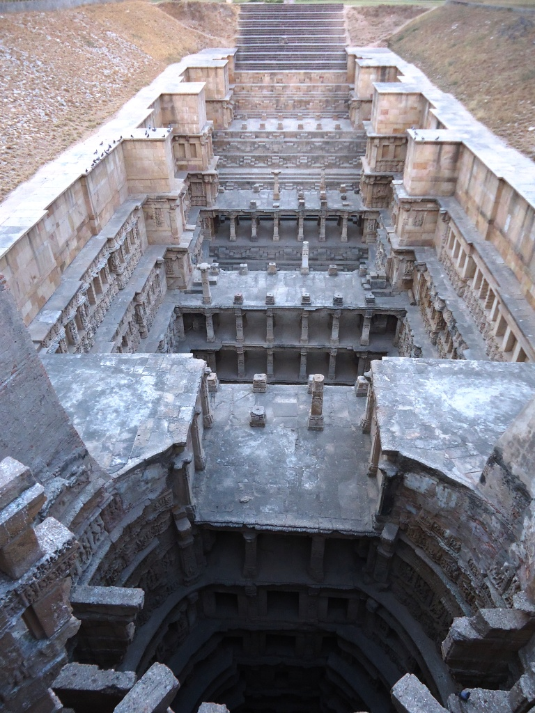 Rani Ki Vav, Patan, Gujarat. Above View